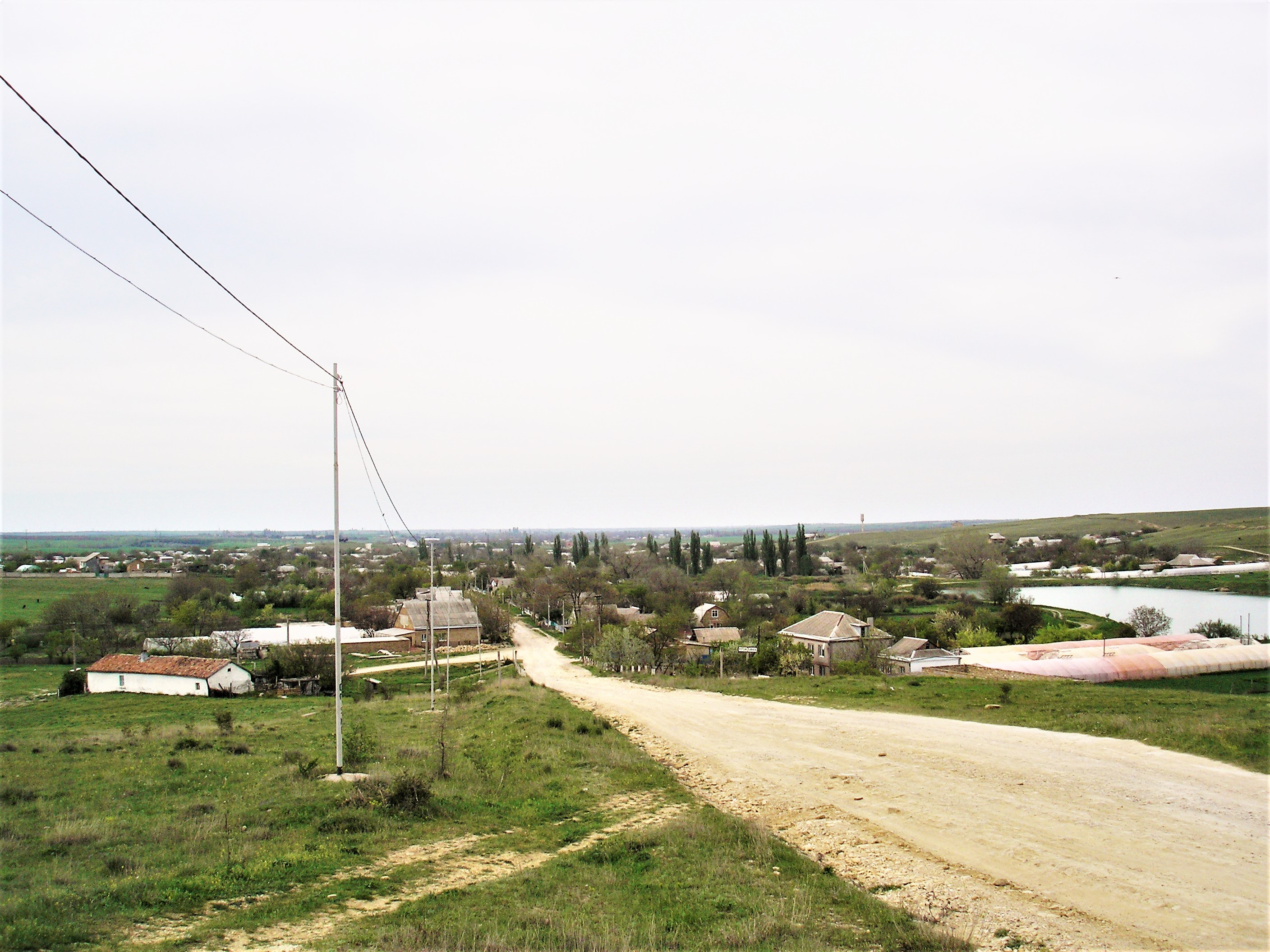 Urozhaynoye village, Simferopol district, Crimea.